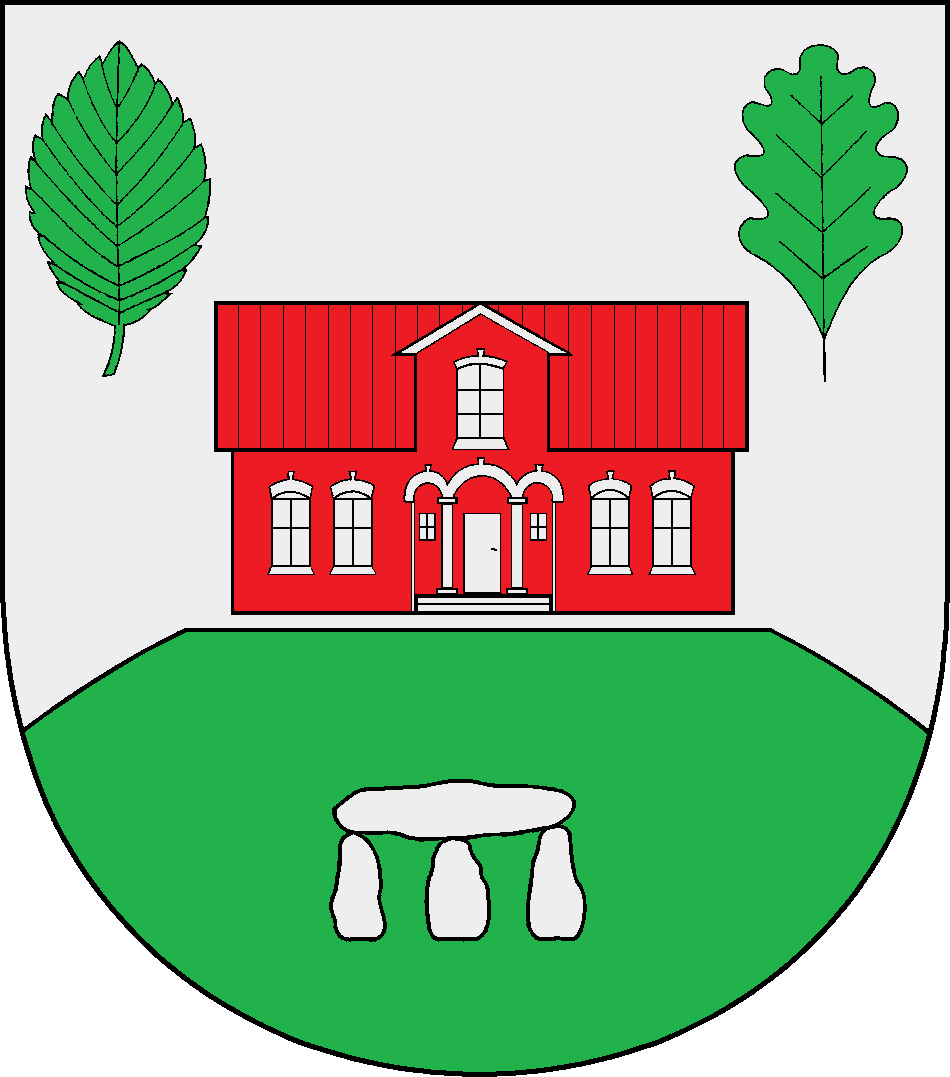 Coat of arms of the municipality Bargstedt in Schleswig-Holstein, Germany.